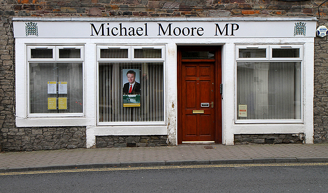 Constituency office of Michael Moore, the Liberal Democrat MP.